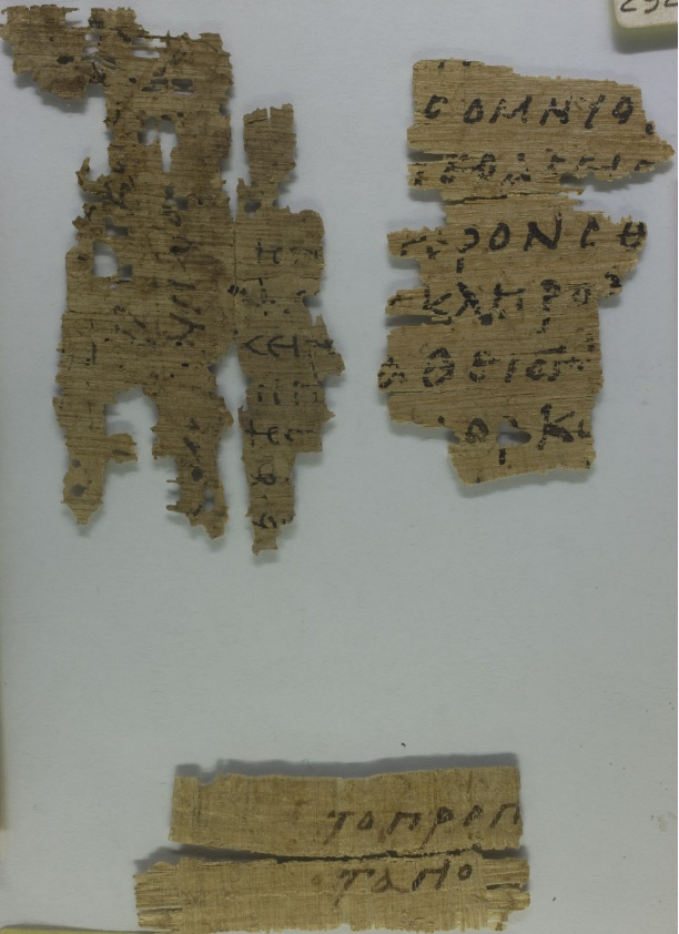 Papyrus 89 - Laurentian Library, PLaur.142 - Hebrews 6,7–9.15–17 - recto